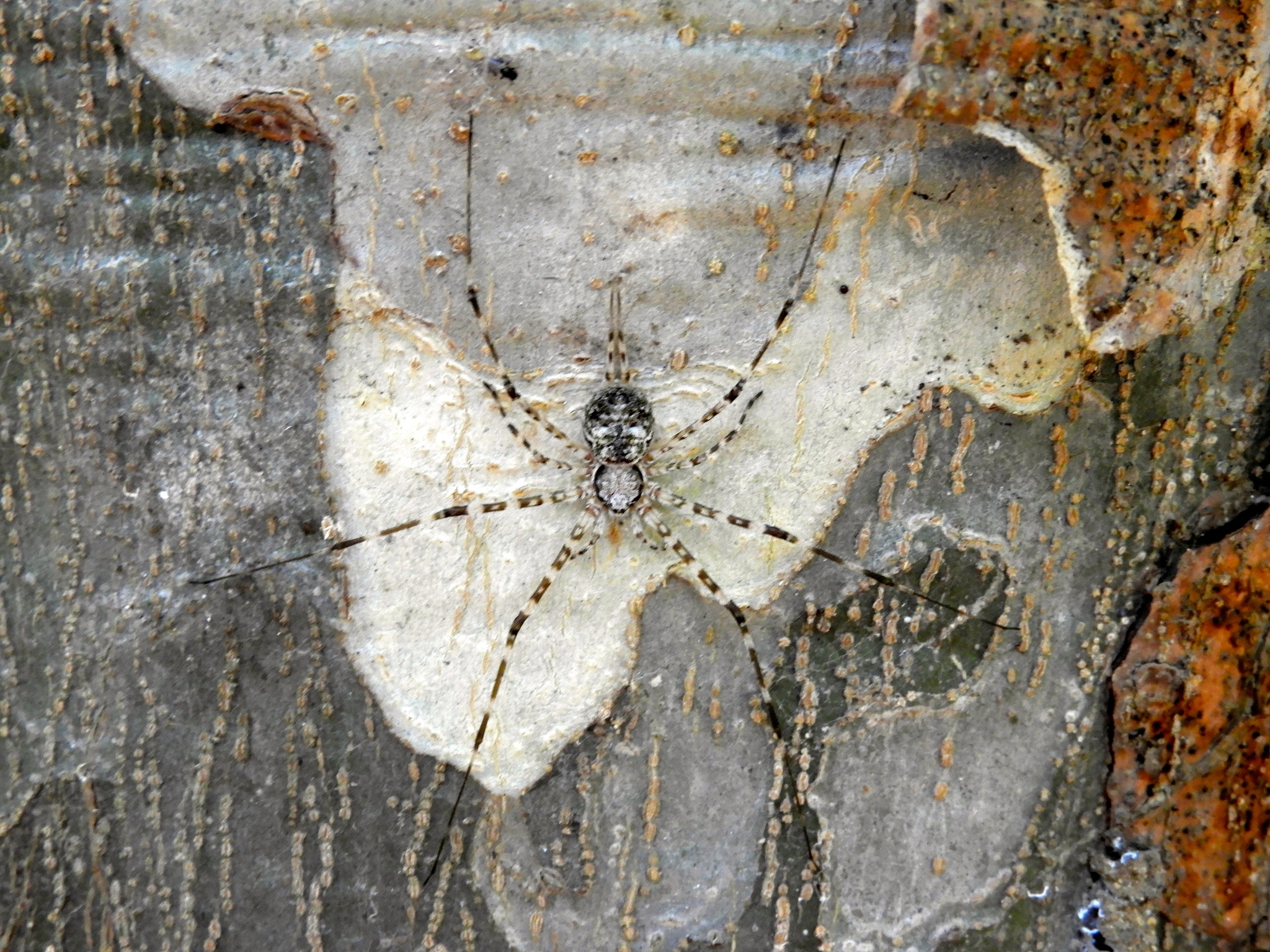 Mexican Two-tailed Spider (Neotama mexicana). Species of arachnid.